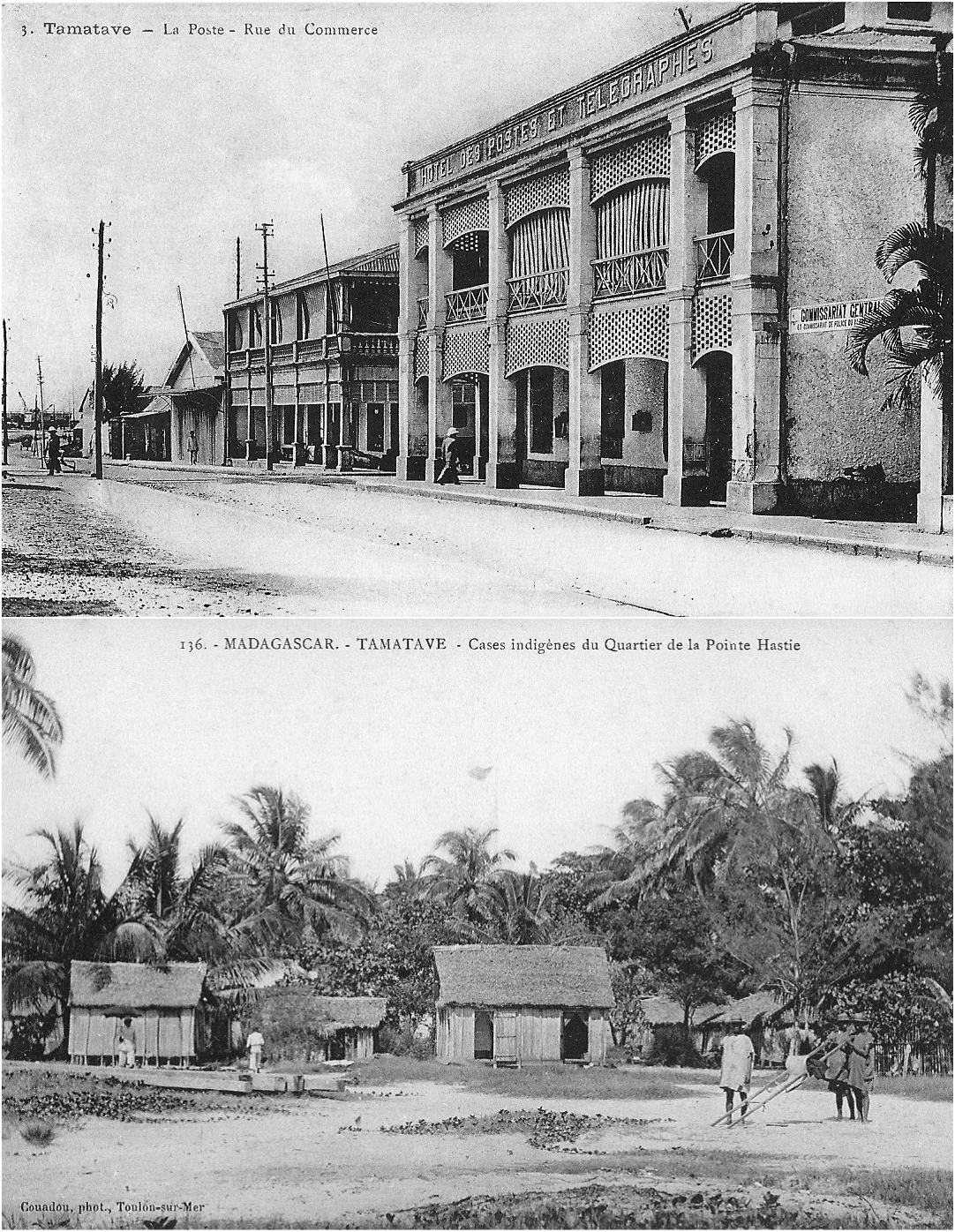 When Madame Guérin was living in teaching in Madagascar, there were two sides to the island - the smart buildings of the French population and the poor villages of the Malagasy.